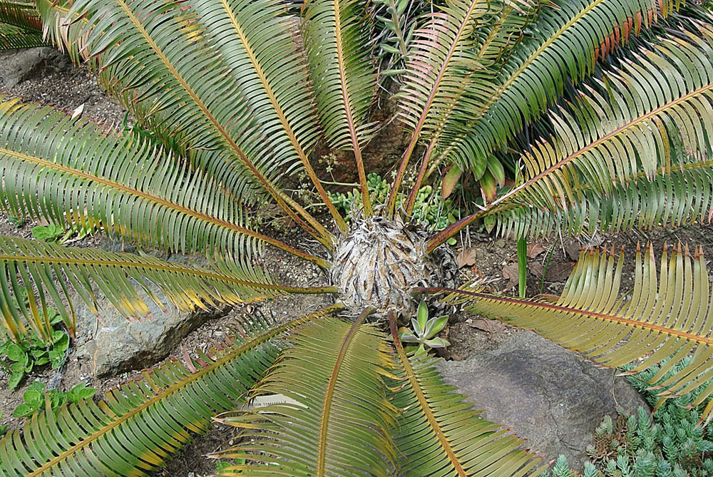 A cycad of the Sierra Madre mountains, Mexico. Lotusland, Montecito, California, USA.